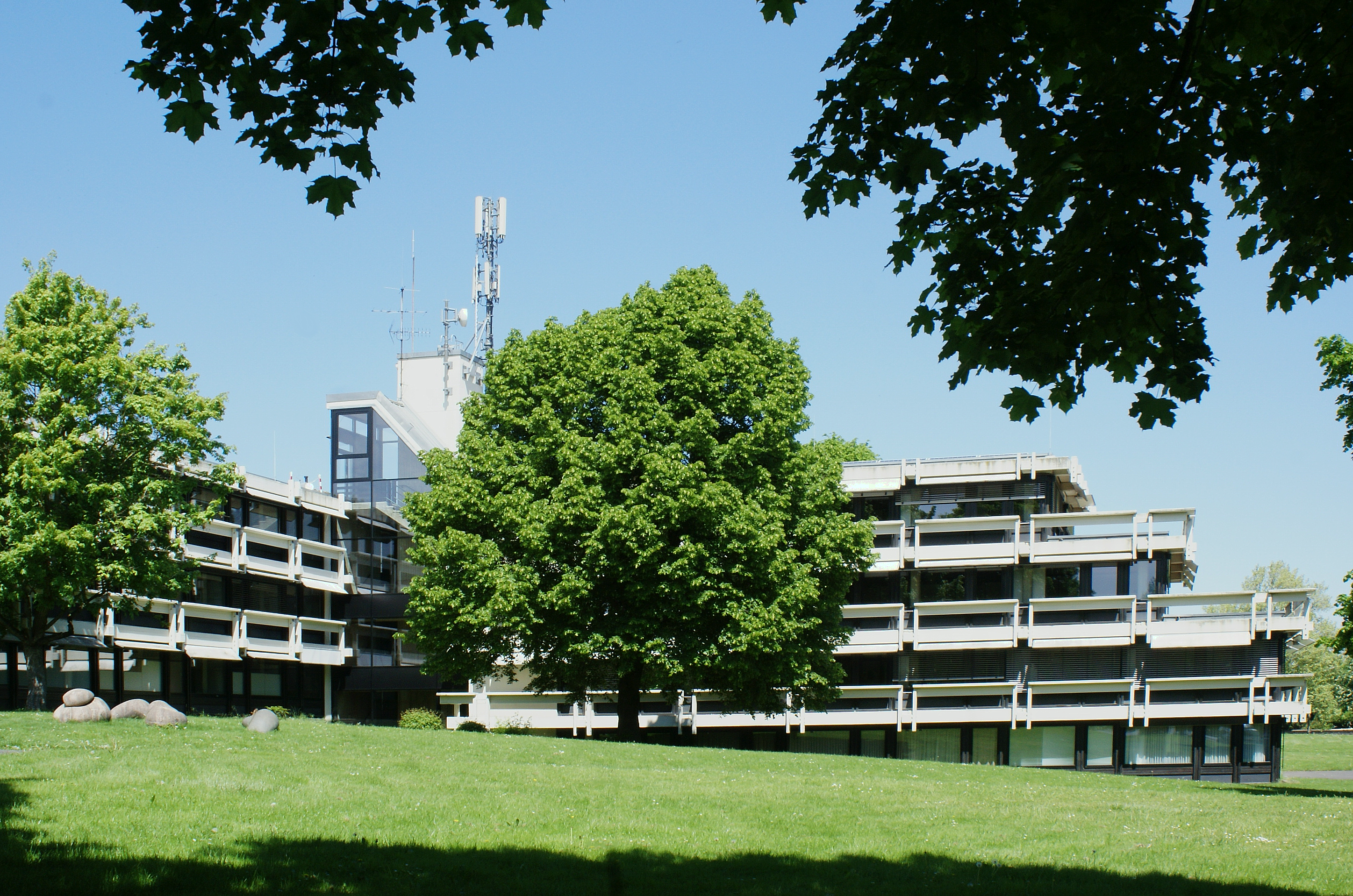 Town hall of the community Alfter